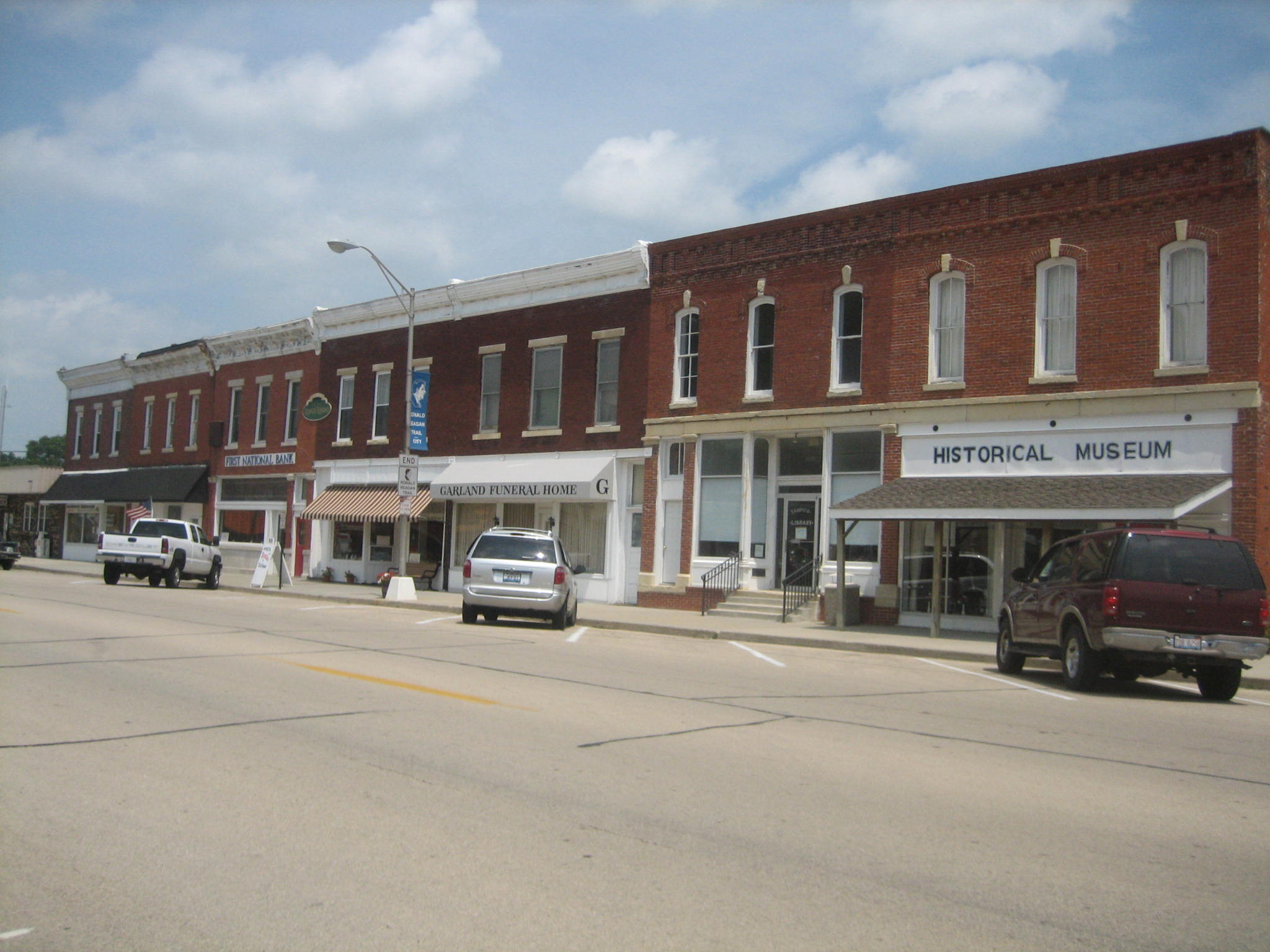 Main Street Historic District, Tampico, Illinois. U.S. National Register of Historic Places. 100 block of Main Street (odd numbers).